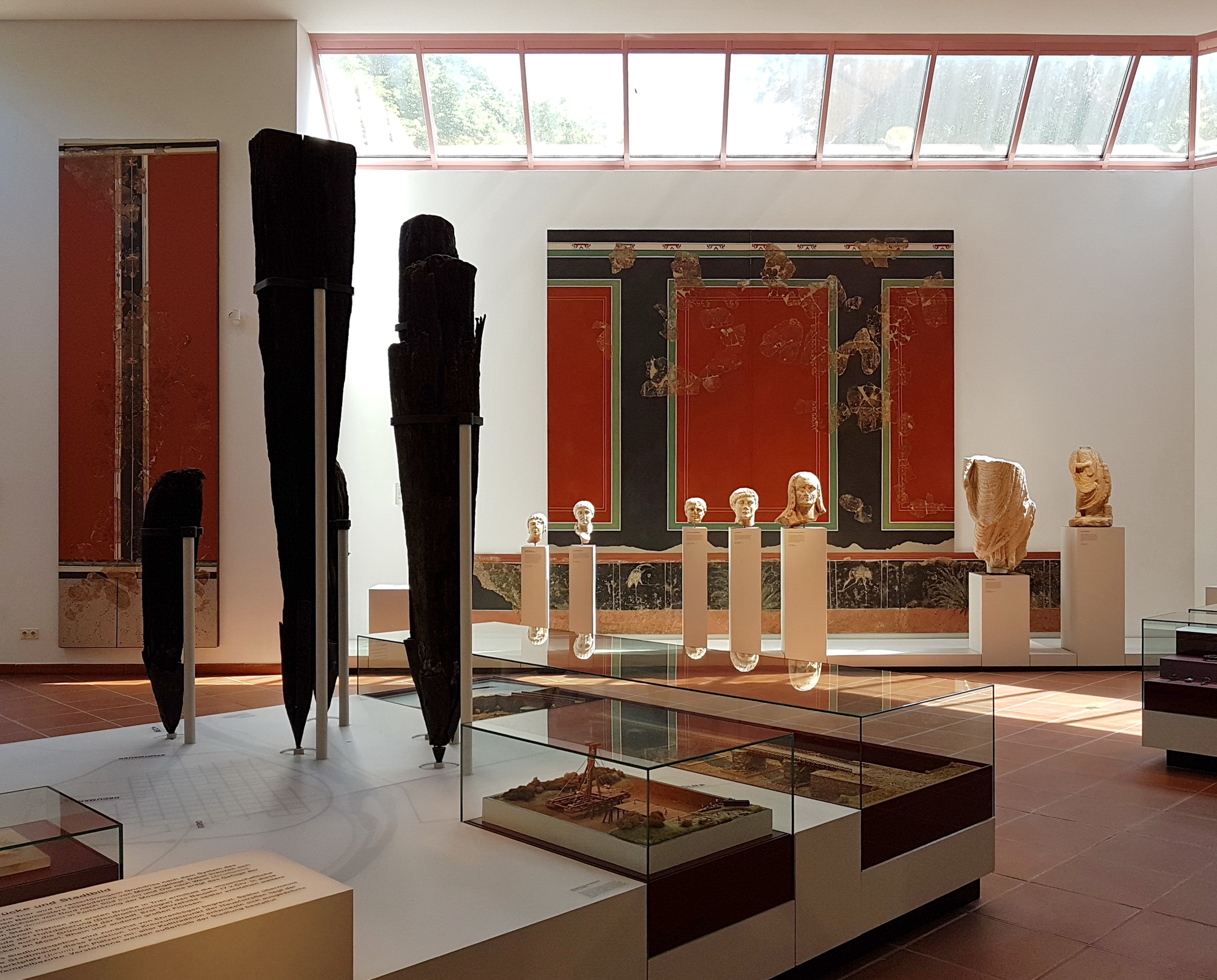 Room with ancient Roman frescos and sculptures from Augusta Treverorum in the Rheinisches Landesmuseum Trier, Germany.